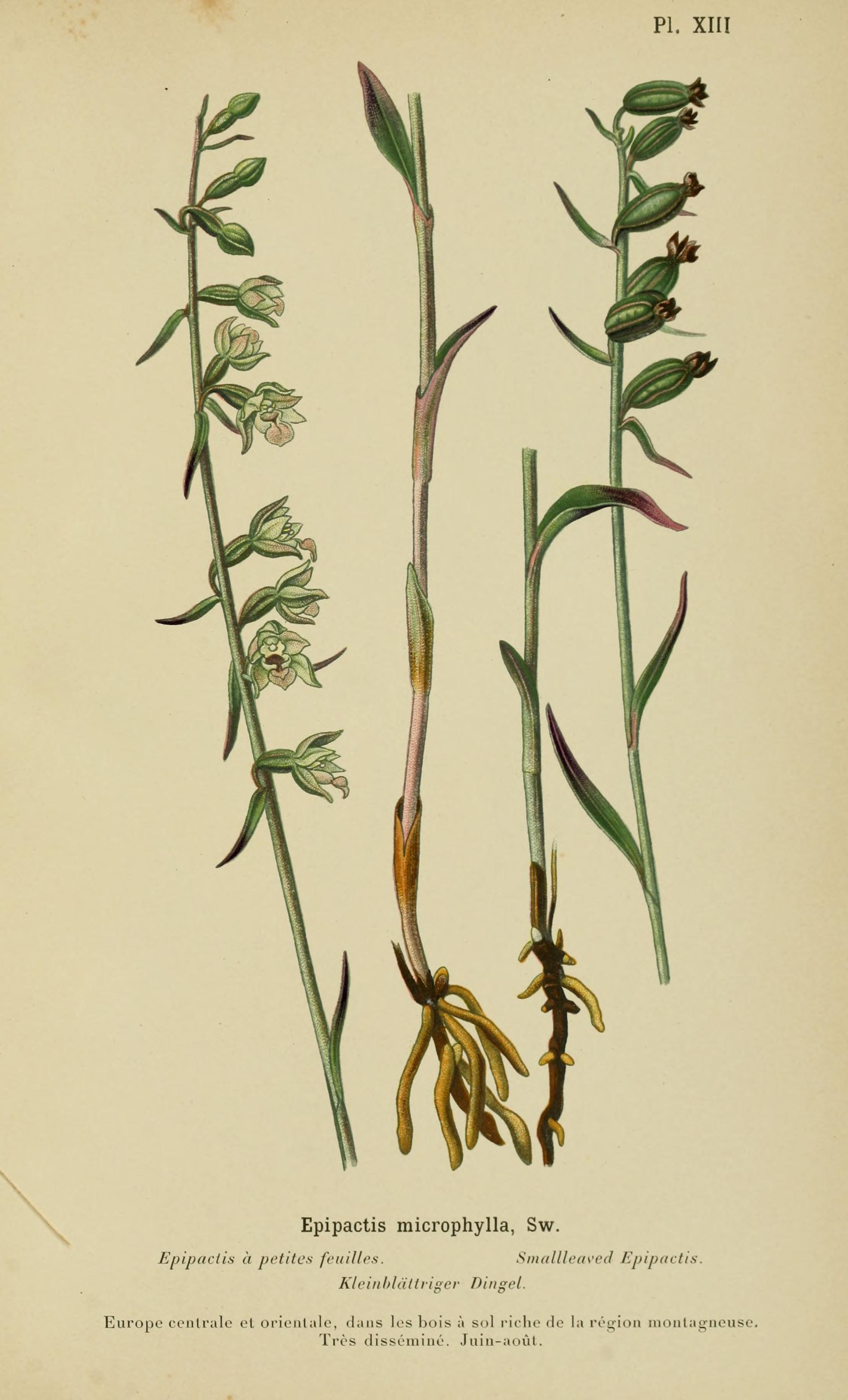 Title: Album des orchidées de l'Europe centrale et septentrionale Year: 1899 (1890s) Authors: Correvon, Henry, 1854-1939 Subjects: Publisher: Genève, Librairie Georg Text Appearing Before Image: PI. XIII Text Appearing After Image: Epipactis microphylla, Sw. Epipaclis à petites feuilles. Snidllleds'ed Epipactis. Kleinliltiliii"er Diii"el. Europe centrale et orientale, dans les bois à sol riche de la région montagneuse. Très disséminé. Juiii-aoûl.